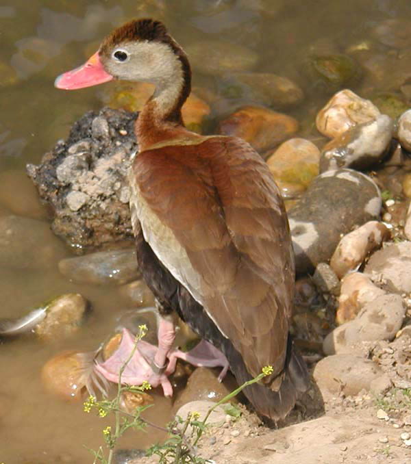 Red-billed Whistling Duck at Slimbridge Wildfowl and Wetlands Centre, Gloucestershire, England. Taken by Adrian Pingstone in June 2003 and released to the public domain.